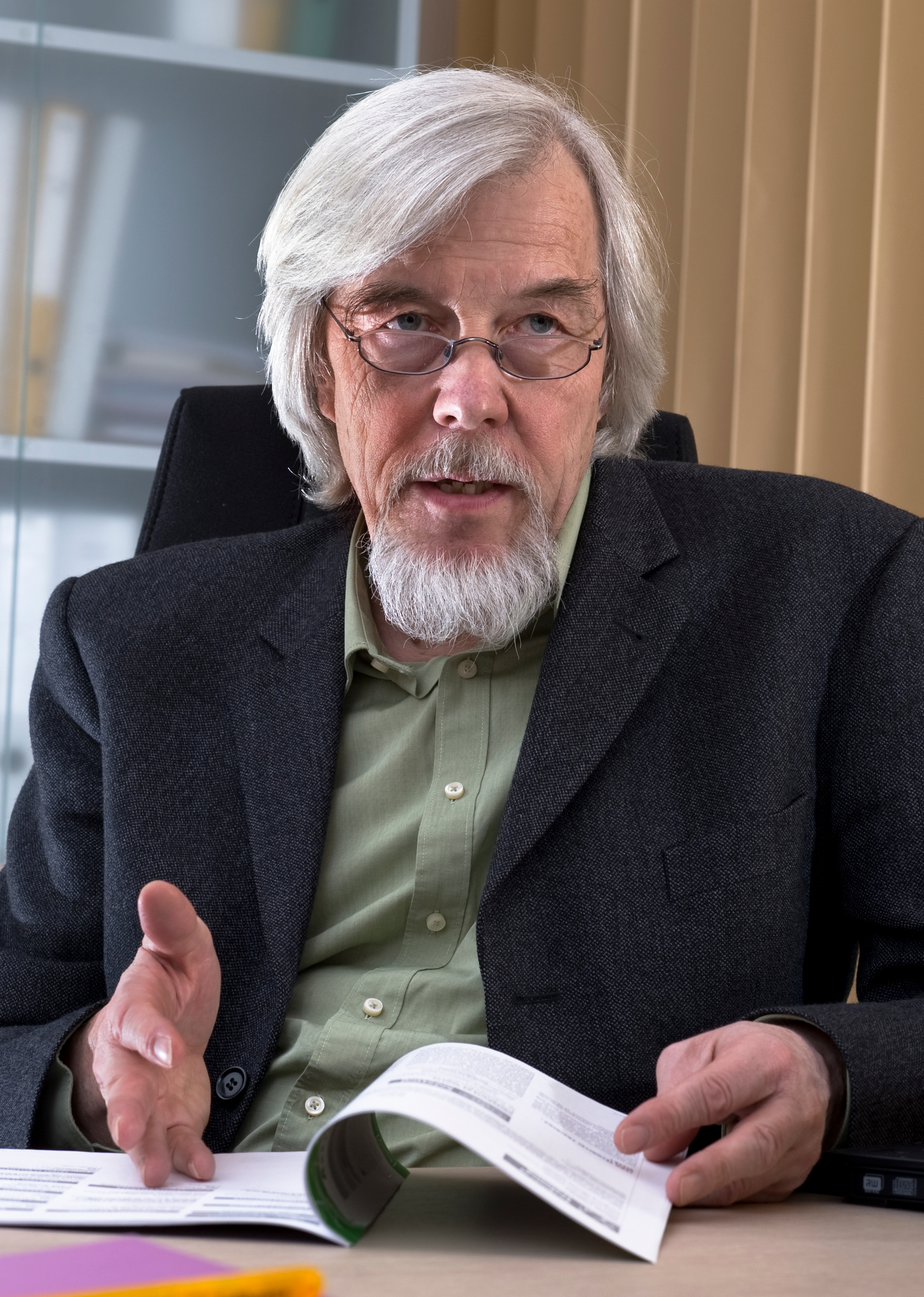 Rolf-Dieter Heuer, the Director-General of CERN from 2009 to date.